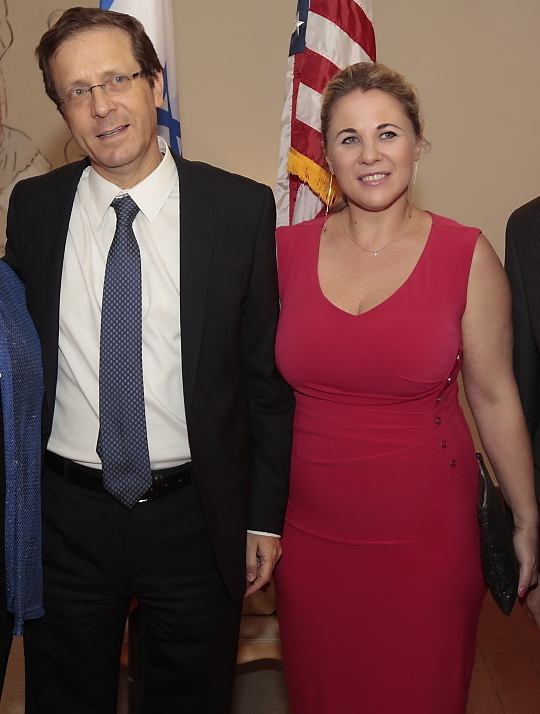 Isaac Herzog with Ksenia Svetlova . U.S. Embassy in Israel. July 4th 2015 celebration at Ambassador residence, Herzliya.